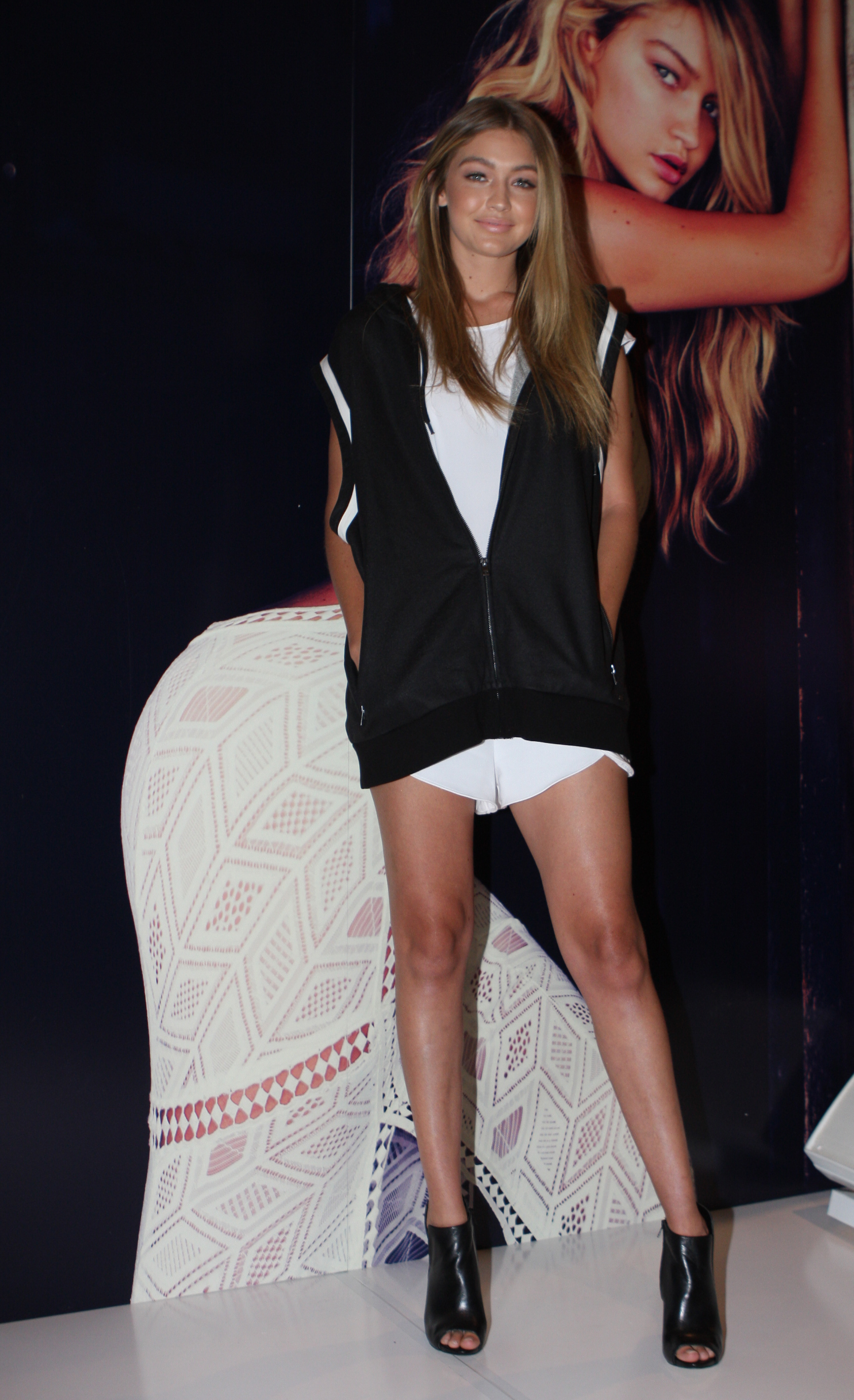 Gigi Hadid in Sydney to celebrate the launch of the Guess Spring Launch 2015 Campaign